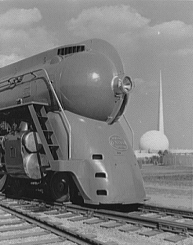 New York World's Fair, railroad exhibit, modern locomotives. Steamlined NYC Hudson, detail